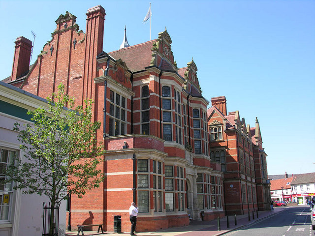 County Hall, Beverley, East Riding of Yorkshire, England.An impressive red-brick building, now home to the East Riding of Yorkshire County Council. Photo taken in Cross Street, with Toll Gavel in the background.